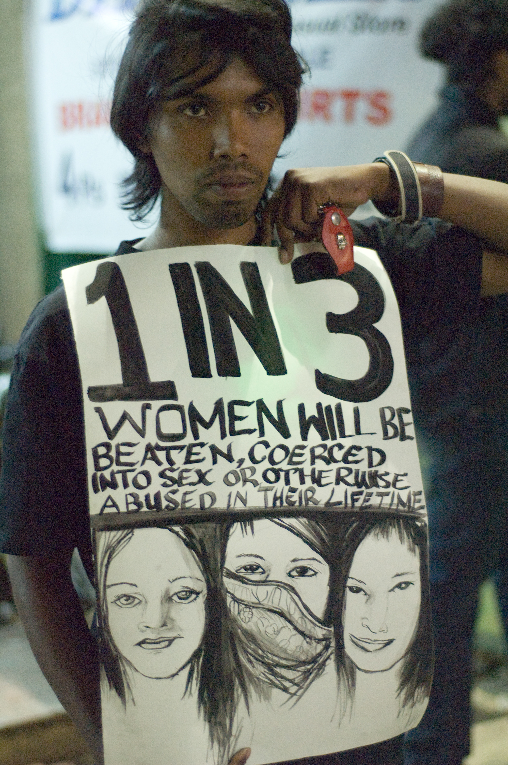 Srishti students contributed posters for the street march, Take Back the Night